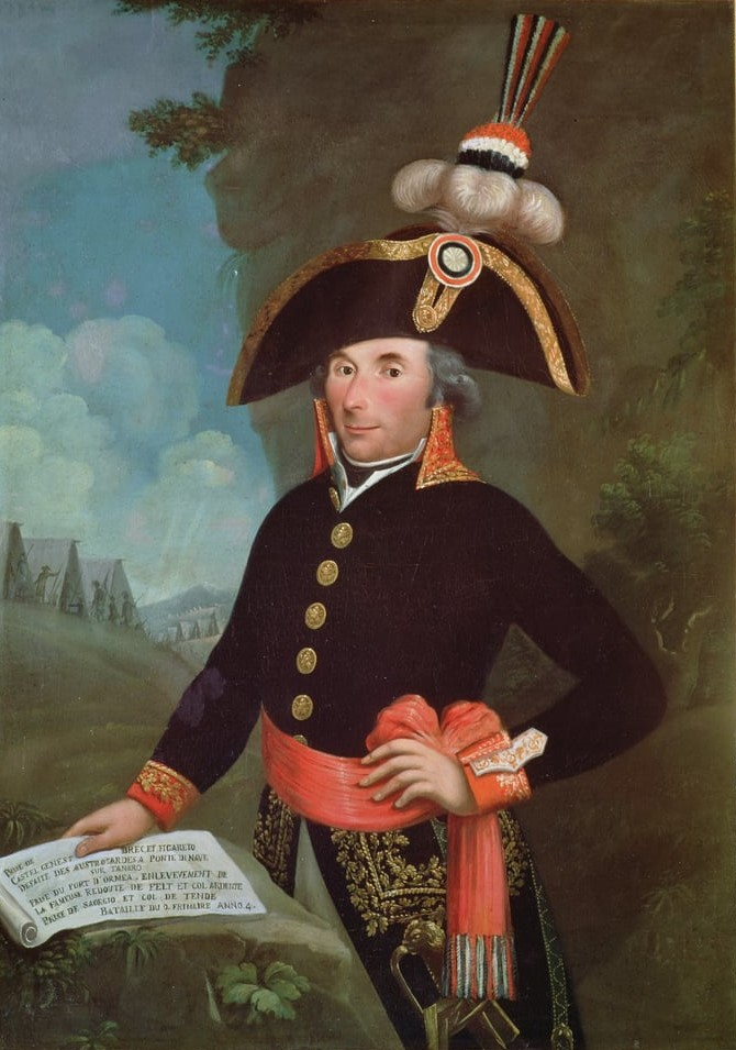 french general André Masséna (1758-1817)